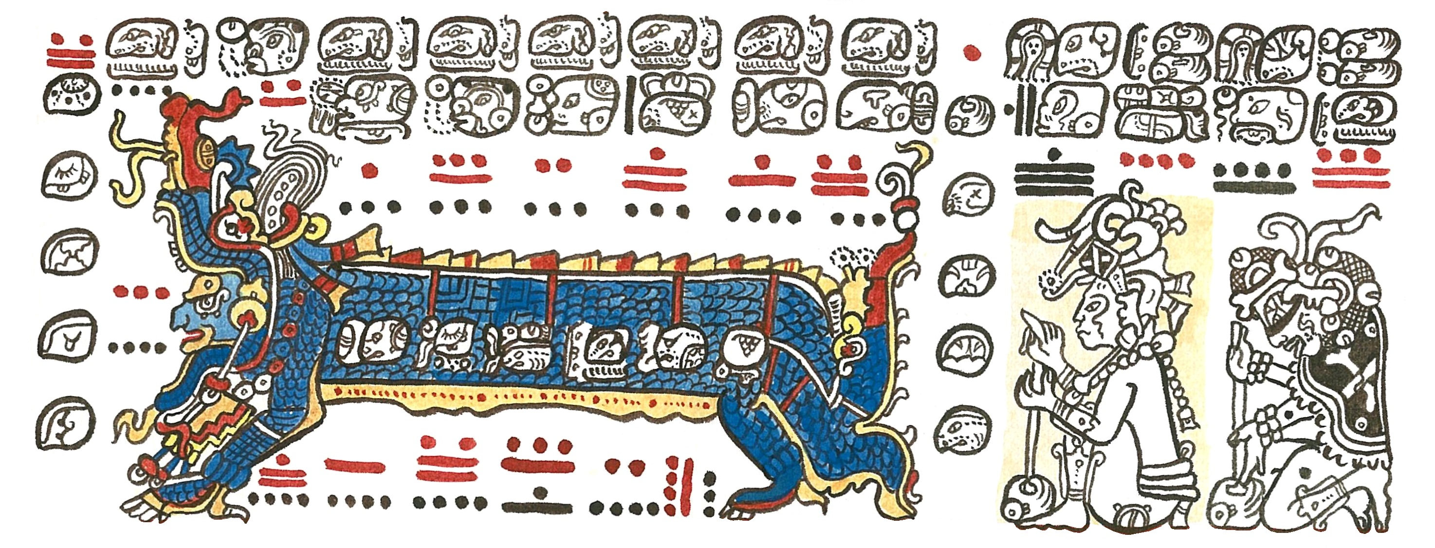 Detail of Dresden Codex with Itzamná in the mouth of the celestial dragon